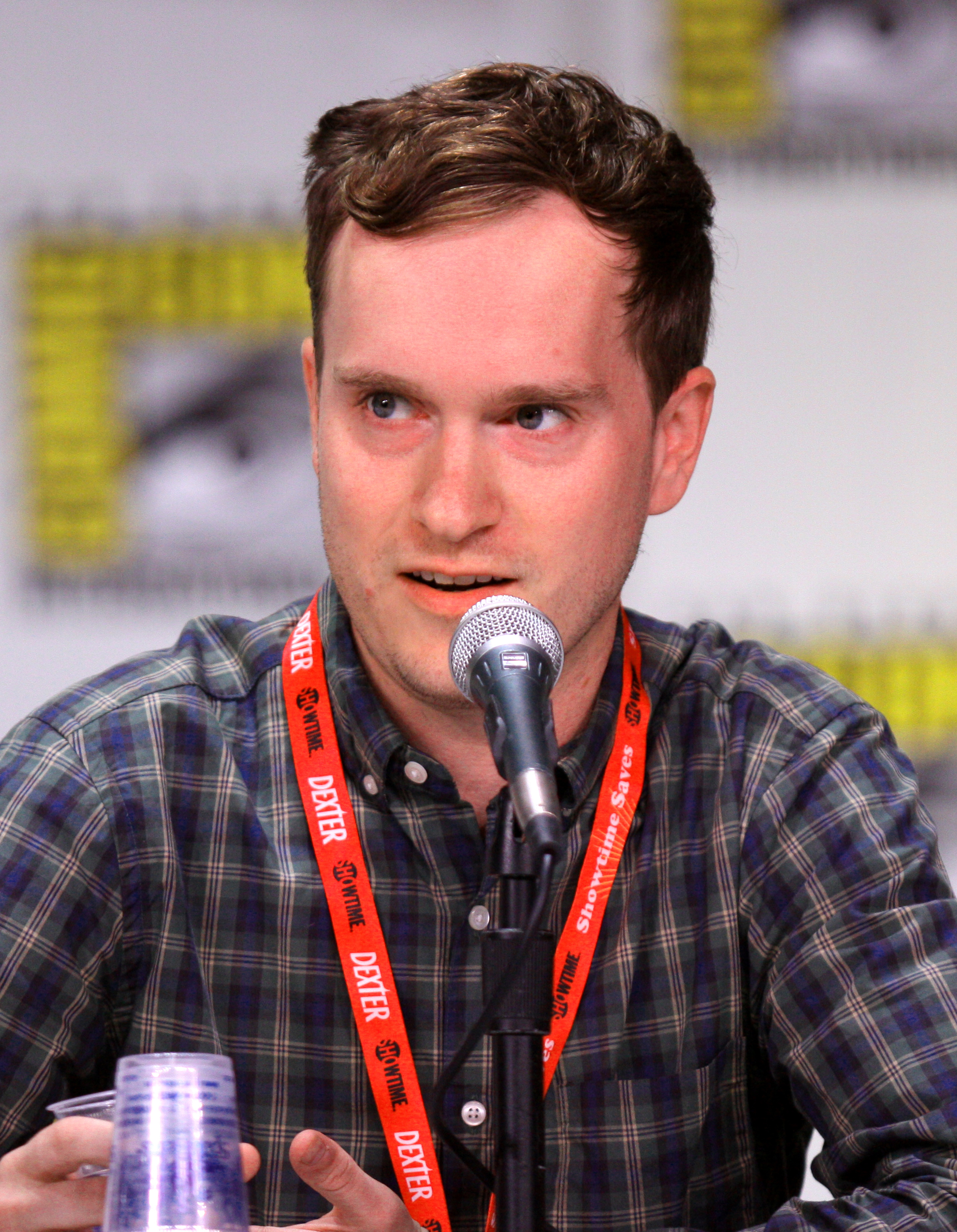 Matt Warburton at the 2011 Comic Con in San Diego